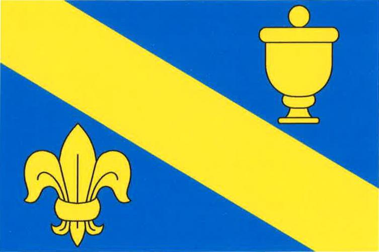 vlajka obce Rohozec